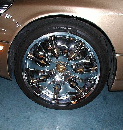 DUB rims by Dayton